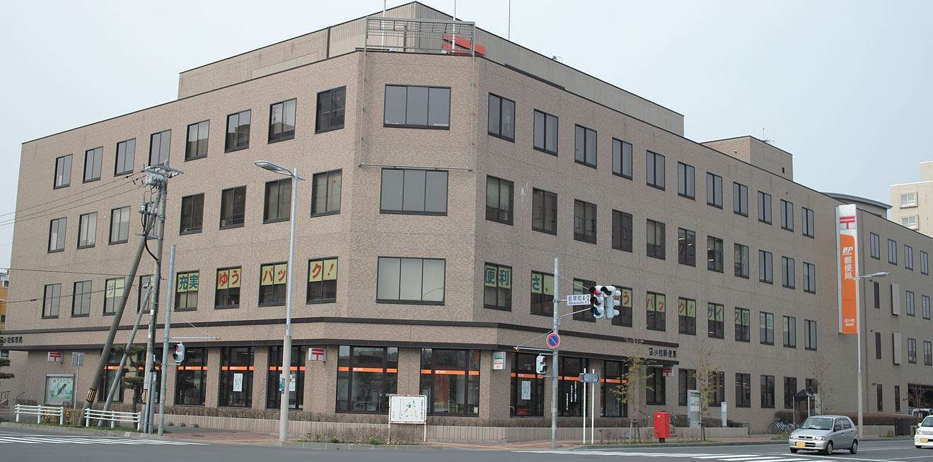 Tomakomai post office, Hokkaido, Japan